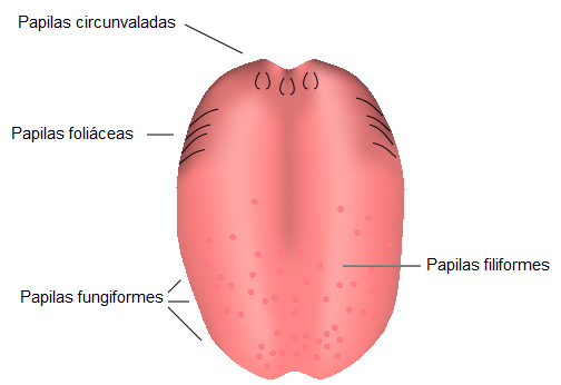 Papillaes of the human tongue.